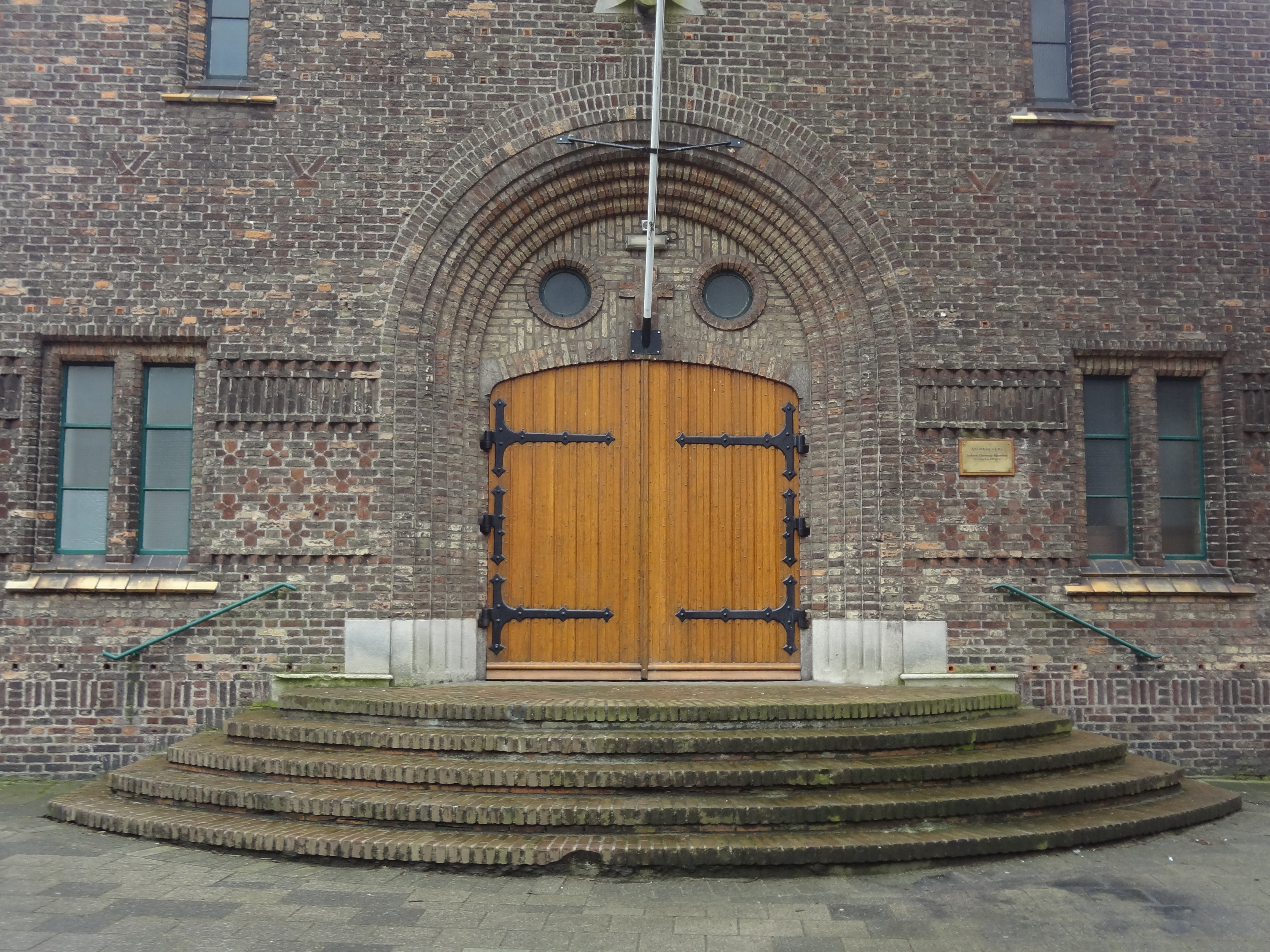 Andreaskerk - Oude Noorden - Rotterdam - Portal